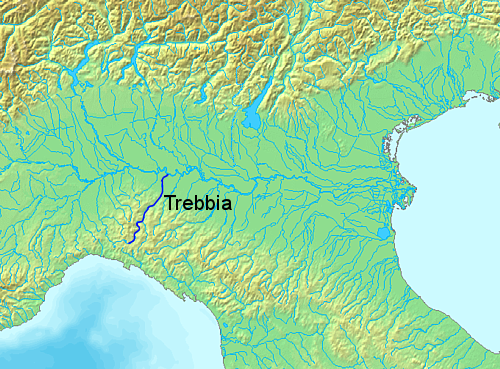 Location of Trebbia river - Italy